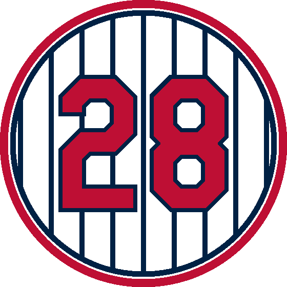 The number "28", retired for Bert Blyleven by the Minnesota Twins.